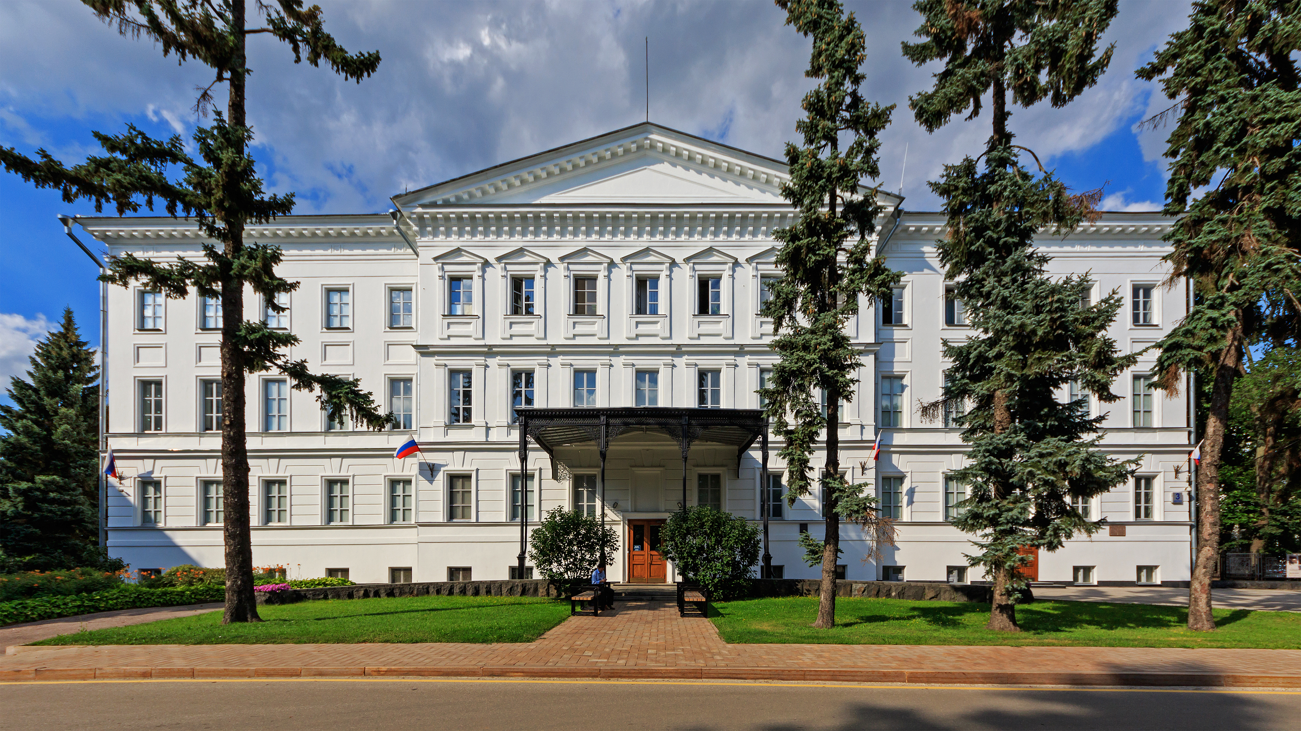 Former Governor's House (now Museum of Arts) in the Kremlin in Nizhny Novgorod, Russia